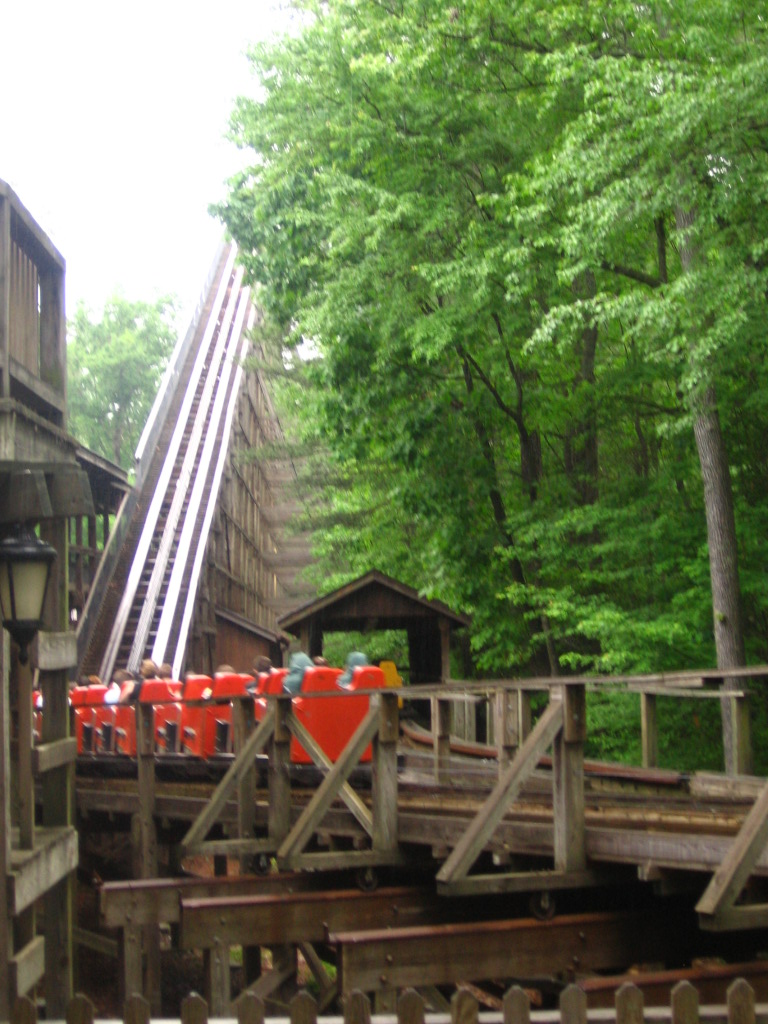 A train of the Kings Dominion park's Grizzly wooden roller coaster passing over a track switch and climbing the lift hill.